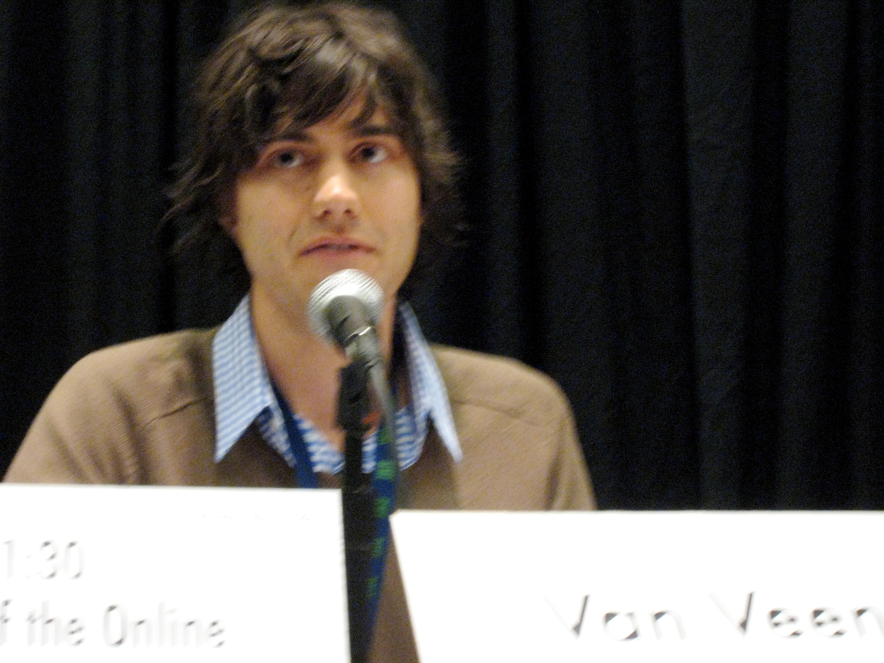 Photo from Flickr